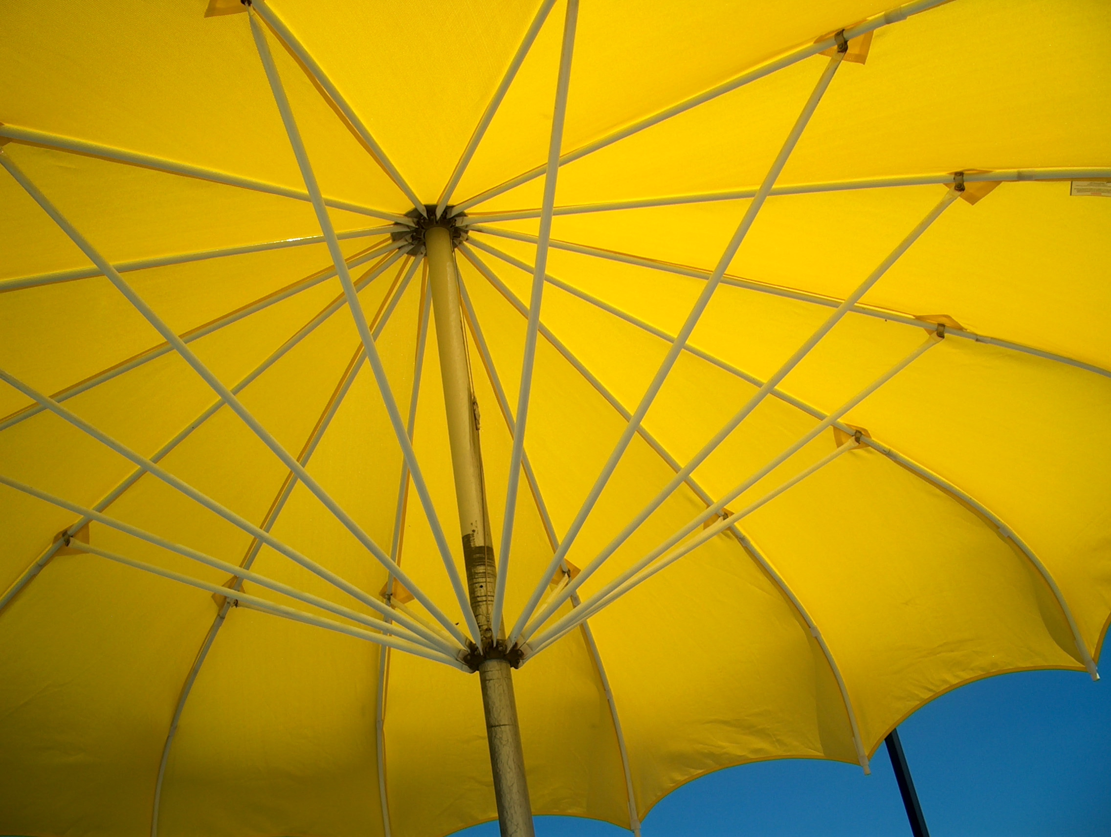 Yellow beach umbrella in the summer sun.